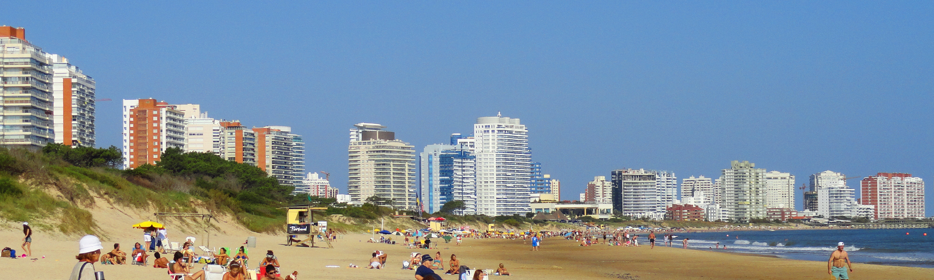 Mansa Beach in Punta del Este, Uruguay